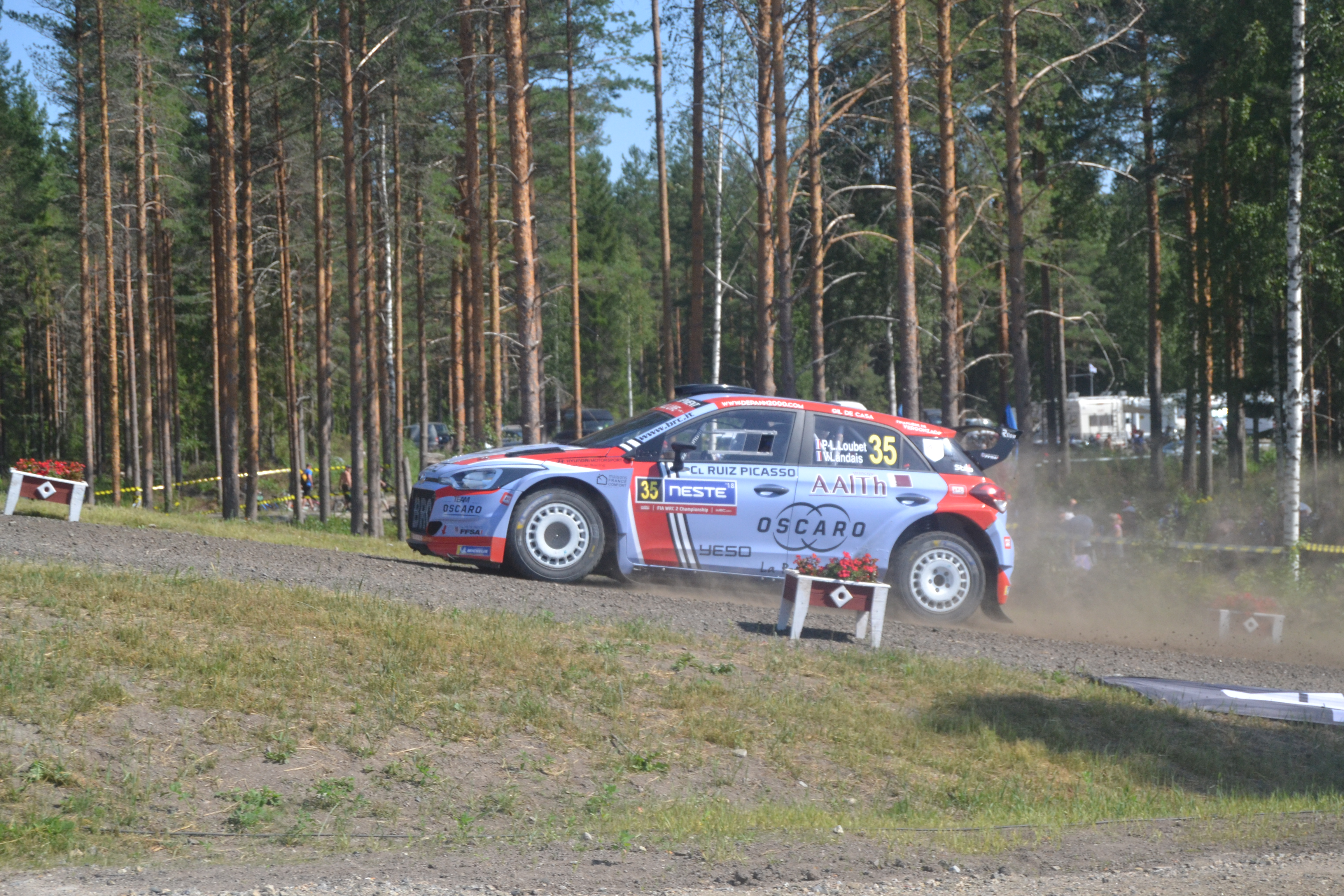 Pierre-Louis Loubet at second Ruuhimäki stage at Rally Finland 2018